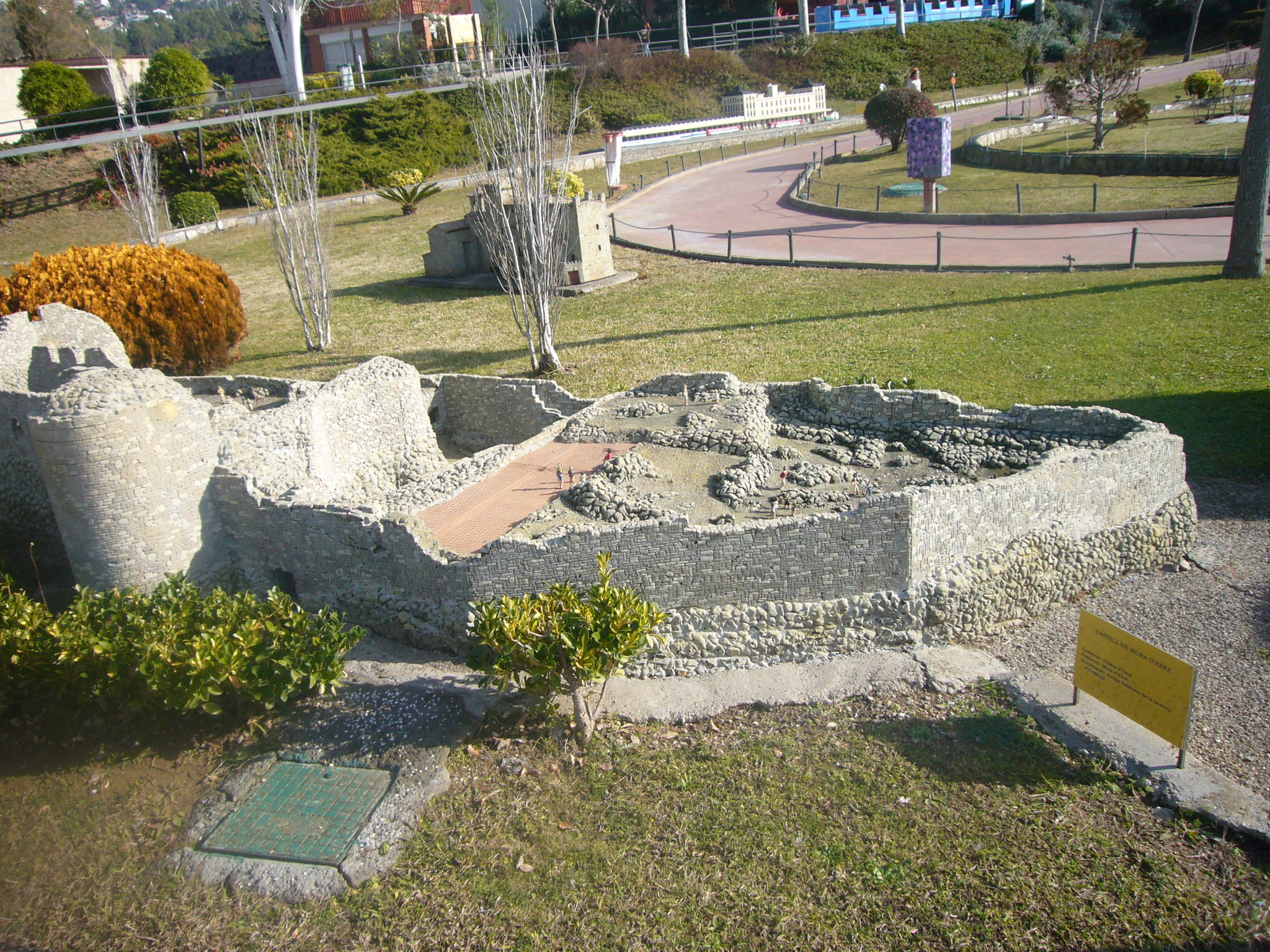 Scale model at the "Catalunya en Miniatura" miniature park : Mora d'Ebre castle